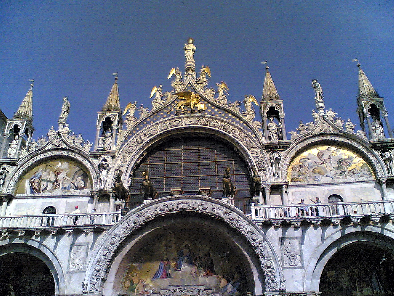 St Mark's Venice facade